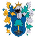 Coat of arms of Gara, Hungary